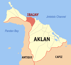 Map of Aklan showing the location of Ibajay